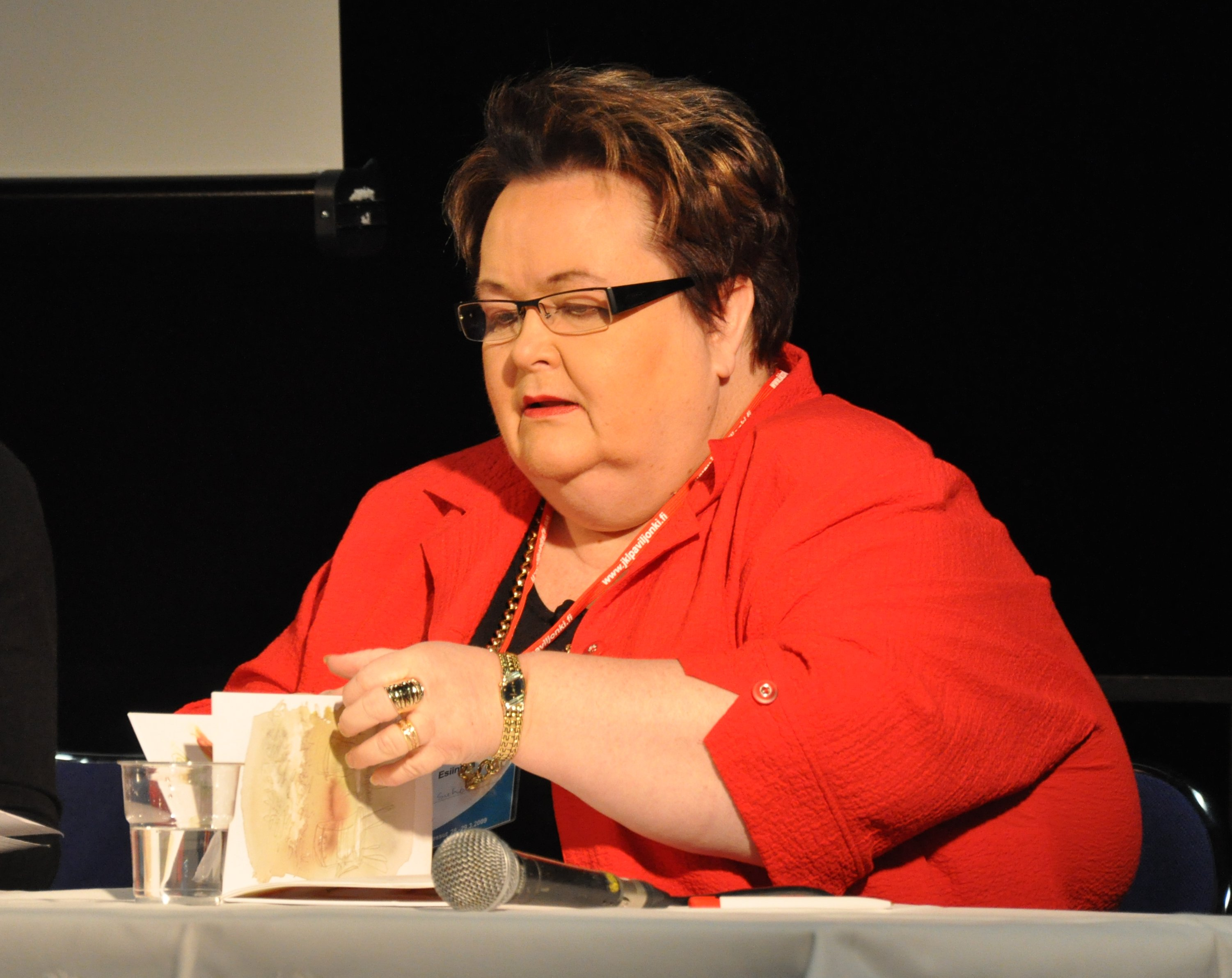 Finnish journalist and writer Aino Suhola at the Jyväskylä Book Fair 2009.